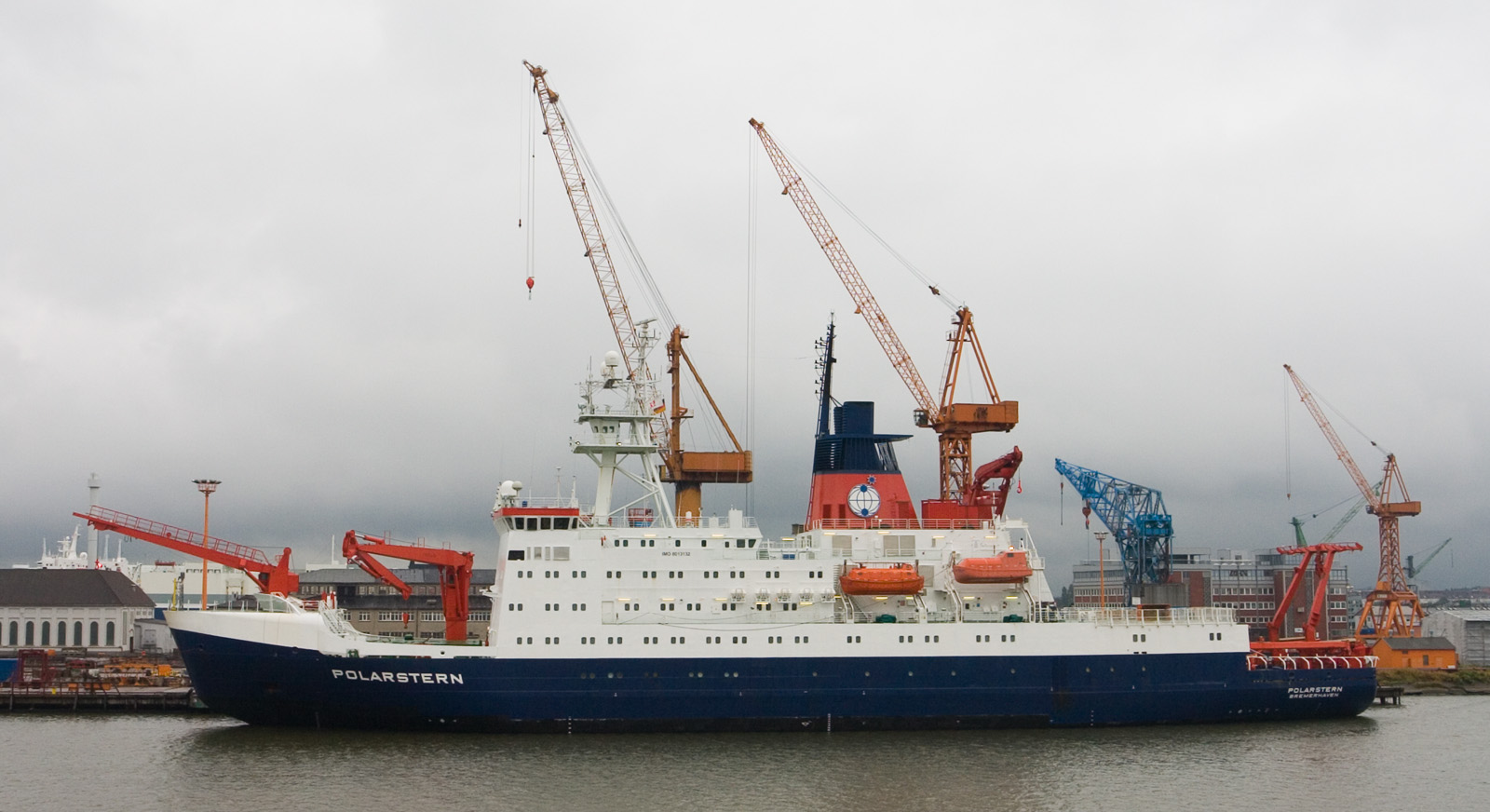 Polarstern in Bremerhaven Germany IMO Number: 8013132 MMSI Number: 211202460 Callsign: DBLK Length: 118 m Beam: 24 m